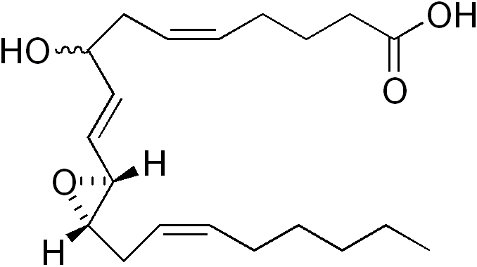 chemical structure of hepoxilin A3